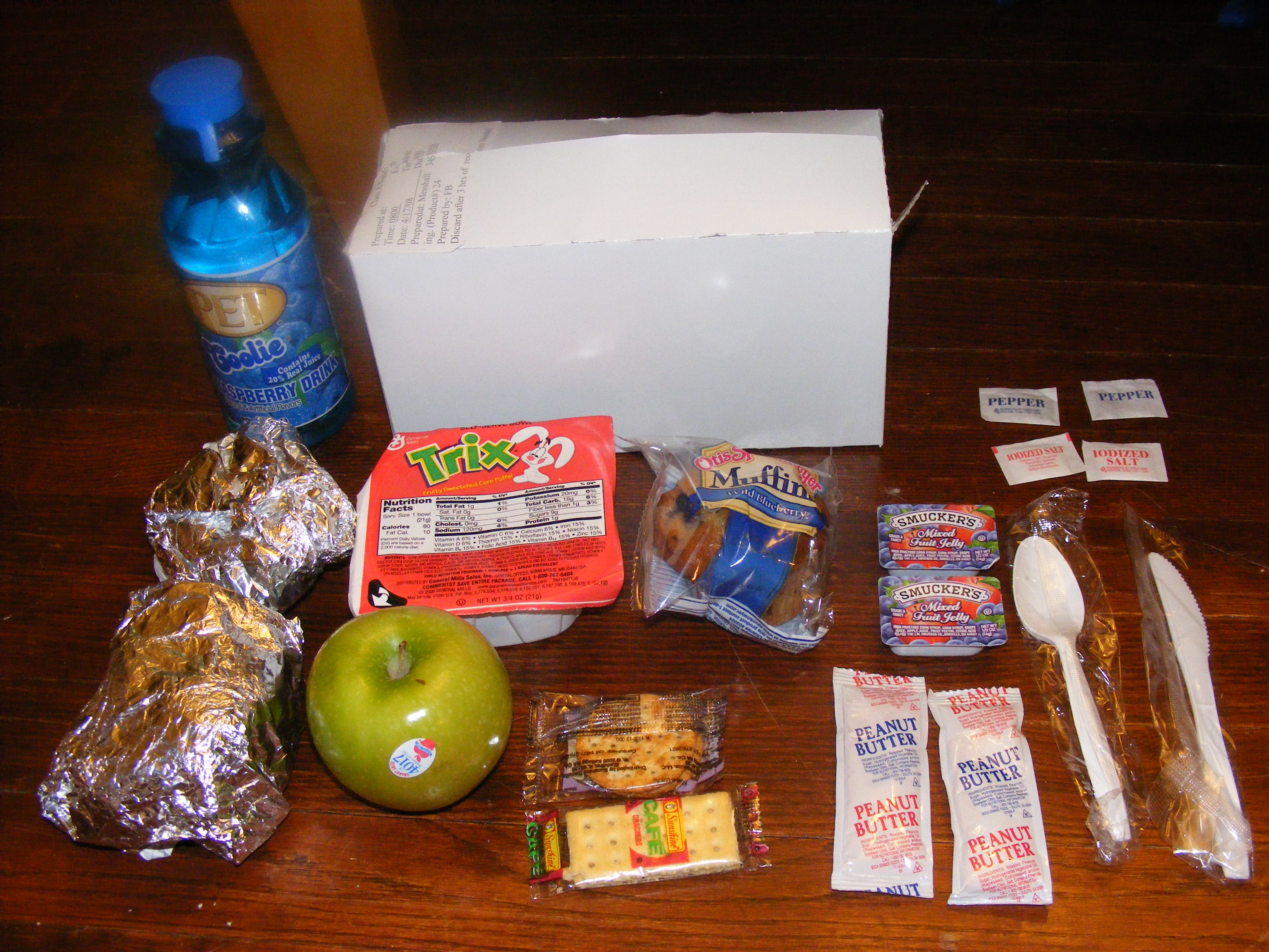 USMC-issued A-ration, colloquially known as a bag nasty.